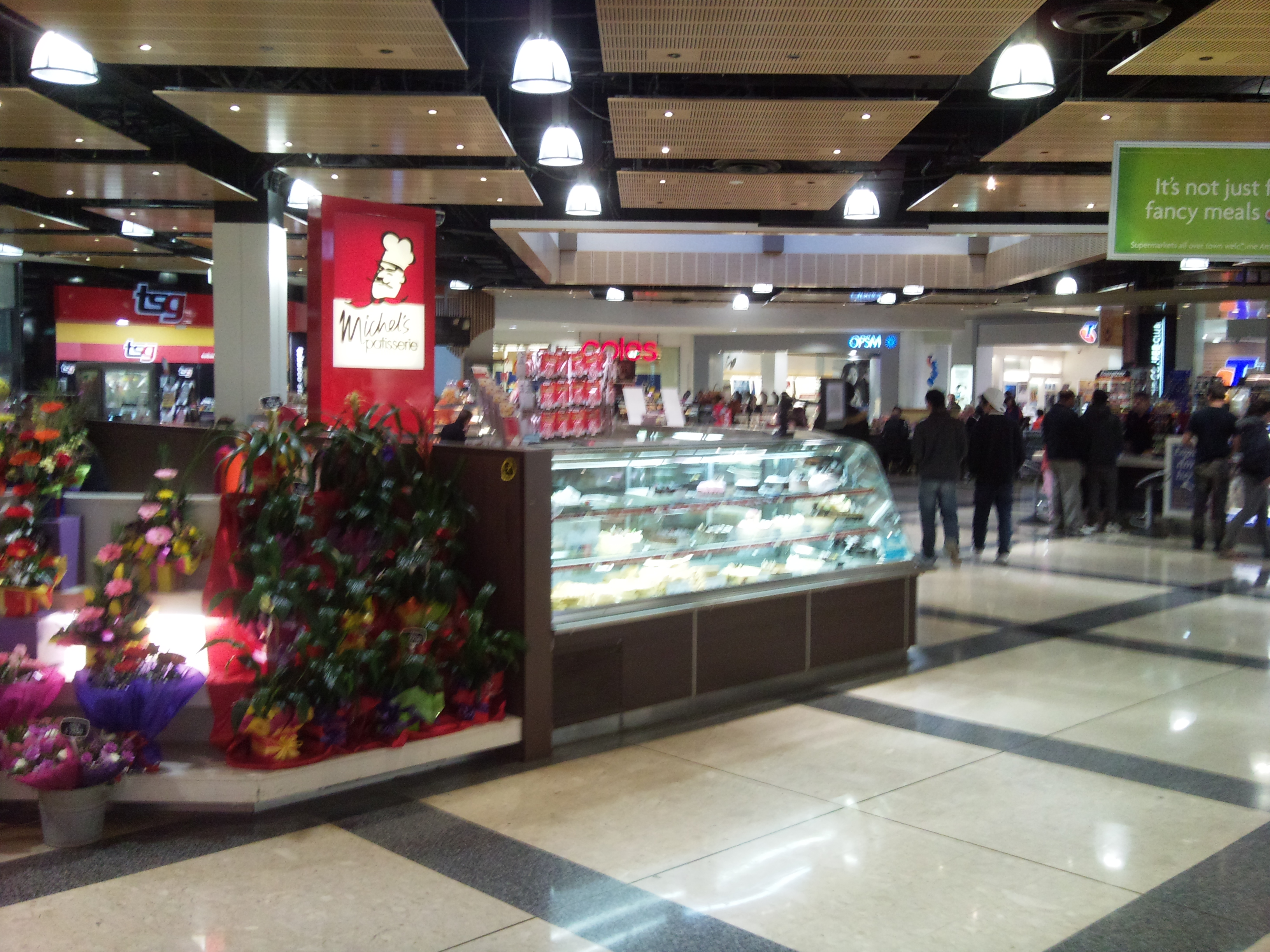 The Fresh Food Court at Parkmore Shopping Cetre